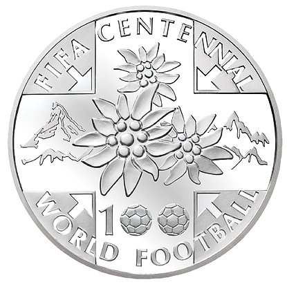 Swiss Commemorative Coin 2004 B CHF 20 obverse